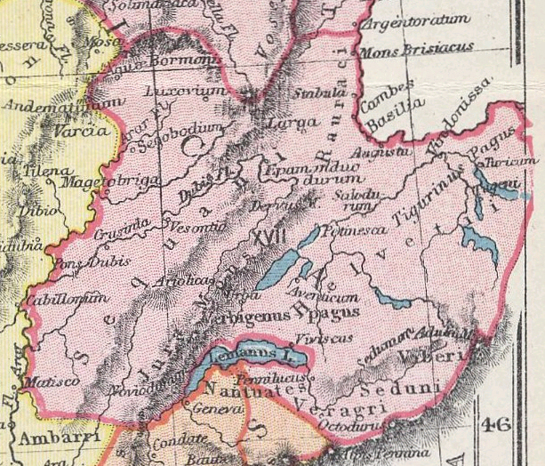 section of map: GALLIA, from "The Atlas of Ancient and Classical Geography" showing Maxima Sequanorum (XVII) occupied predominantly by the Sequani and Helvetii